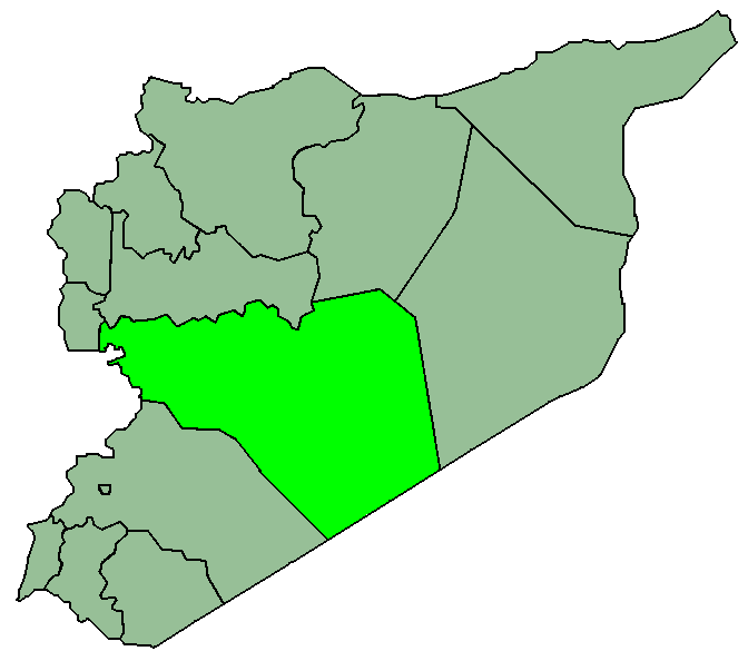 The Syrian governorate of Homs.